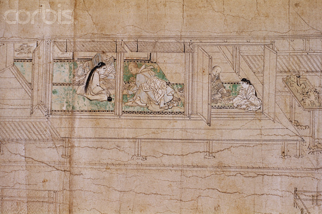 Saigyo Monogatari Emaki - Tsunetaka - Monks and visitors.